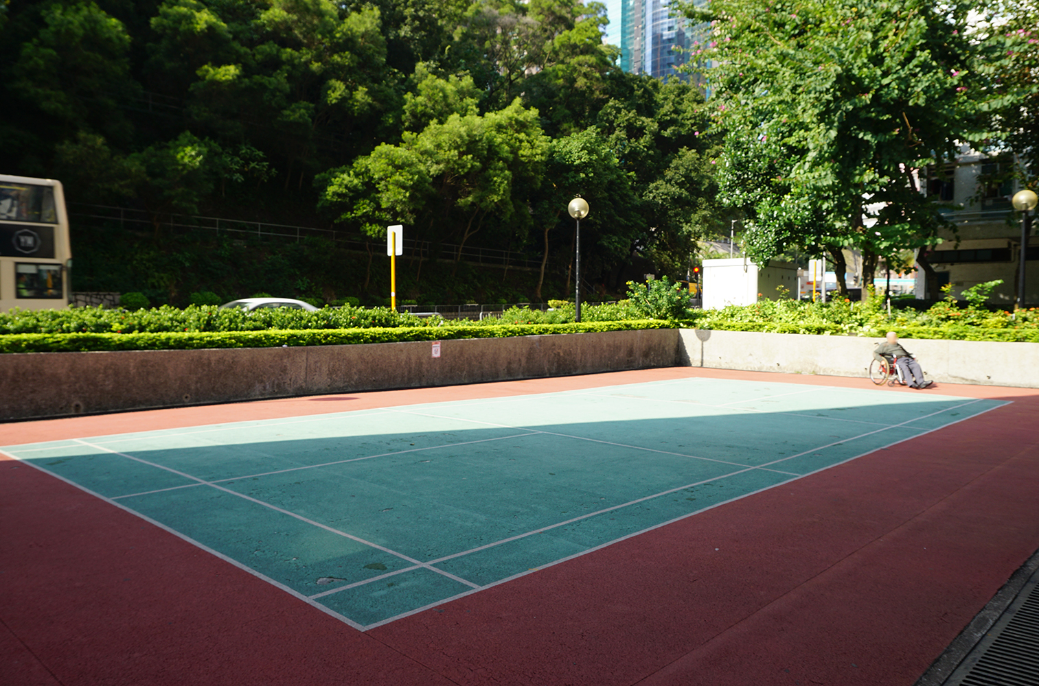 Kwai Hing Estate in Kwai Hing, Hong Kong.